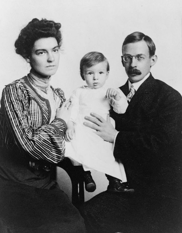 Elsie May and Gilbert H. Grosvenor, three-quarter length portrait, seated, facing front holding their son, Melville Bell. Forms part of: Gilbert H. Grosvenor Collection of Photographs of the Alexander Graham Bell Family (Library of Congress).